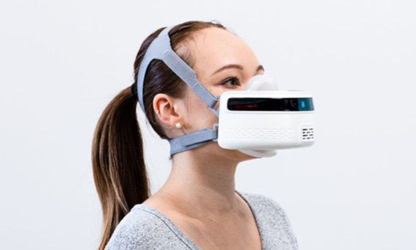 Breezing Pro mask measures RMR through indirect calorimetry.